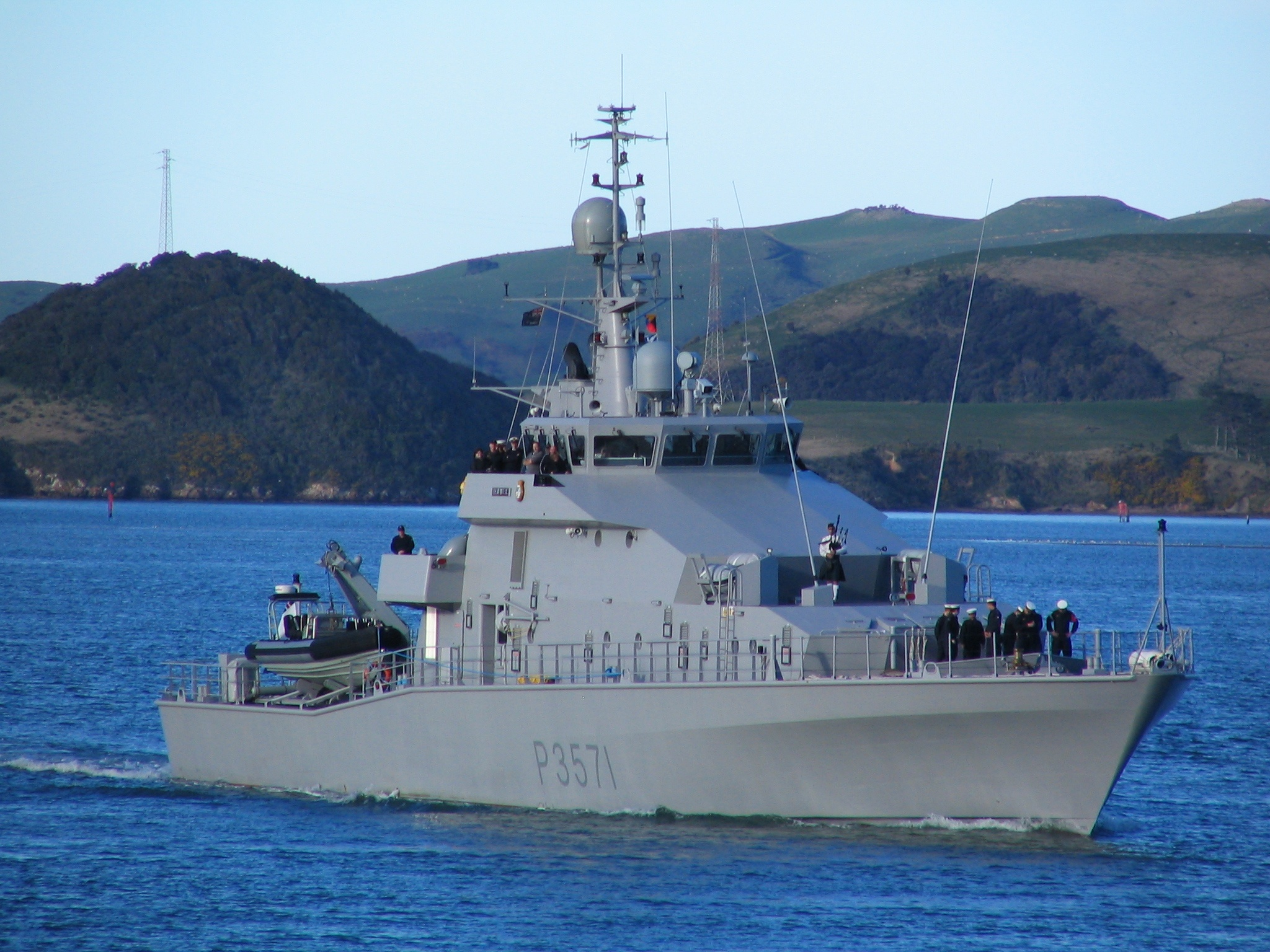 HMNZS Hawea in entering Otago Harbour, New Zealand, bagpiper in the centre.